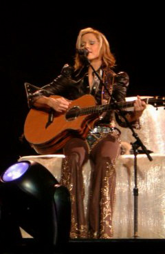 Madonna - Sept 2001 - Los Angeles